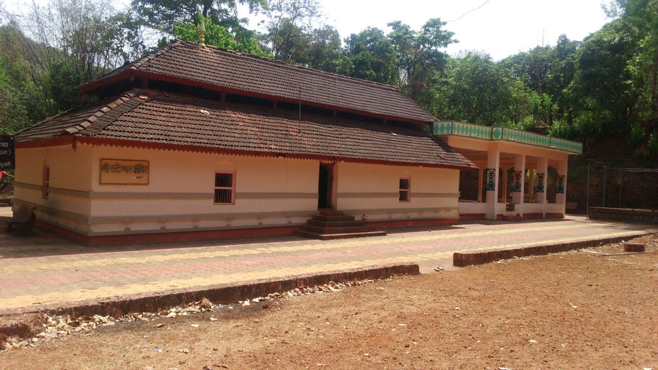 Rahateshwar Mandir